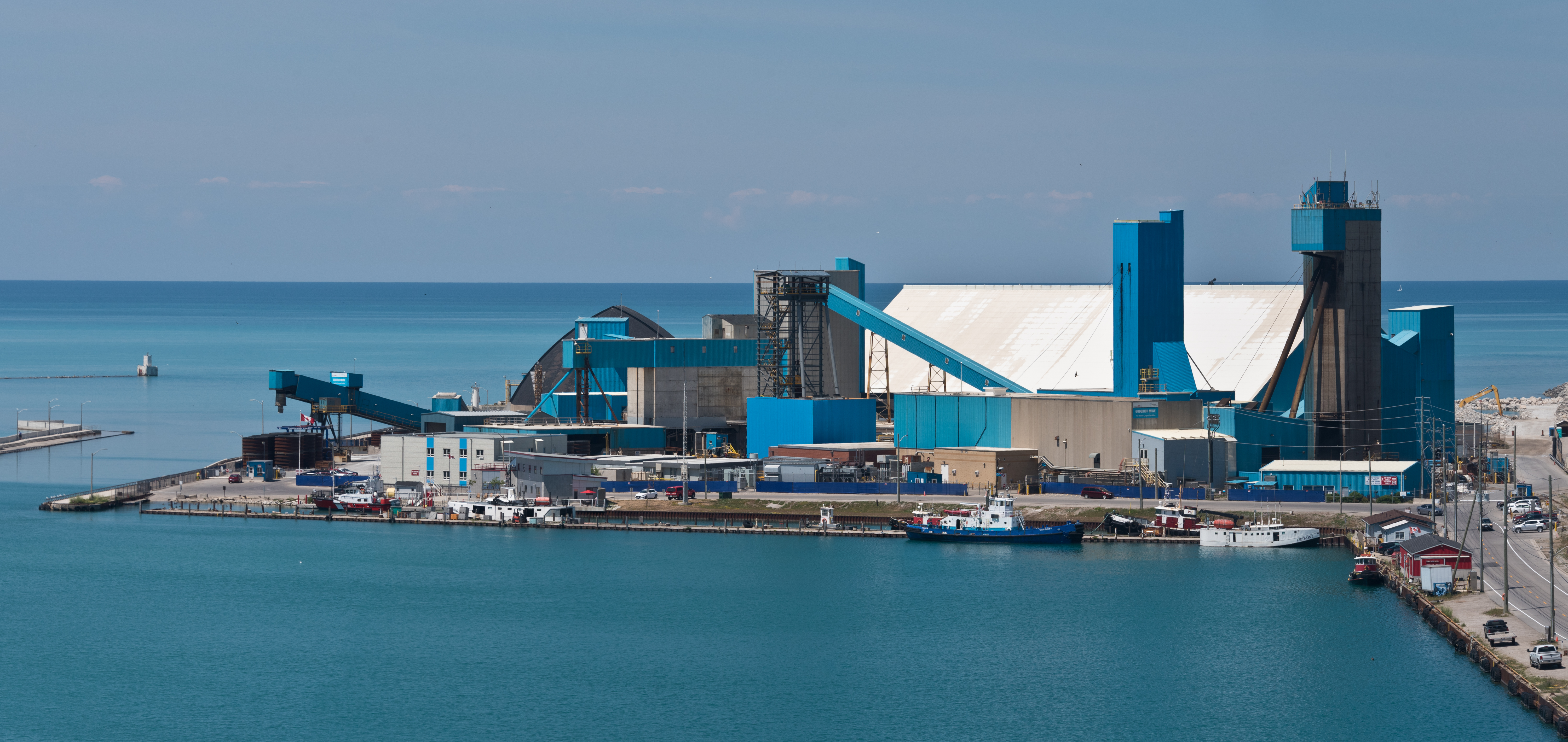 Sifto Canada salt mine and processing plant at the harbor in Goderich, Ontario Canada on July 19, 2018.